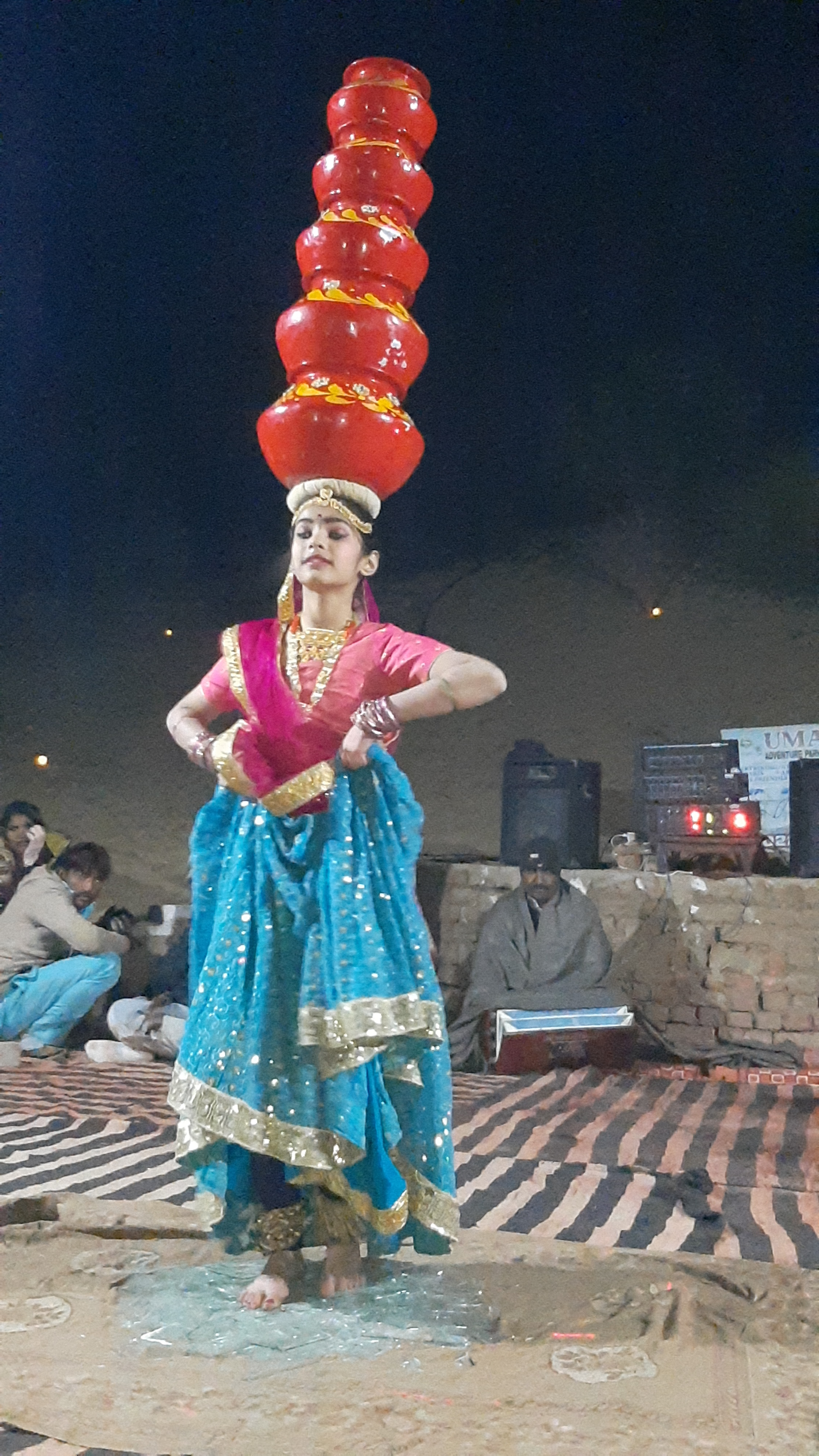 Navya bikaner